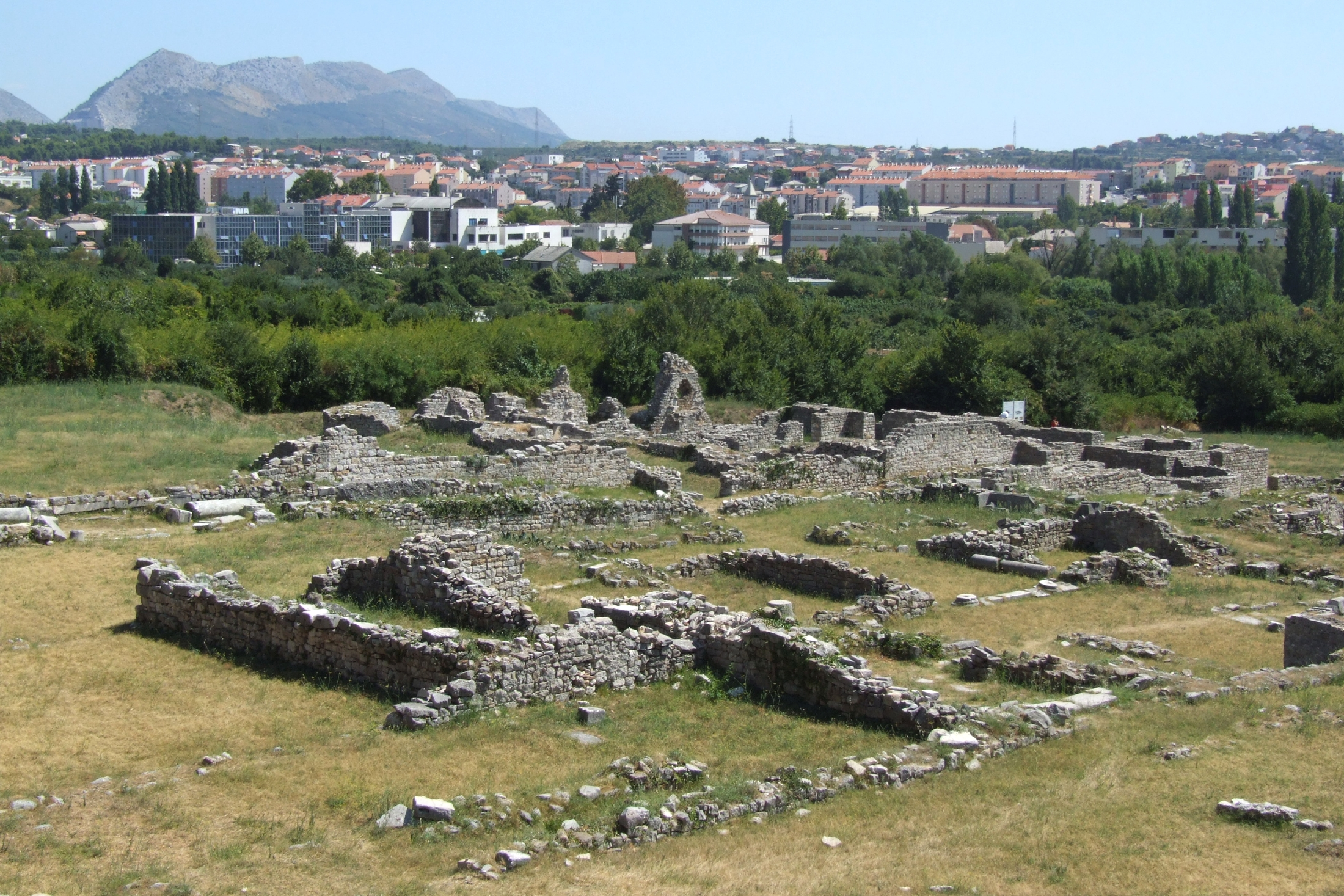 Salona (Solin), Croatia - baths